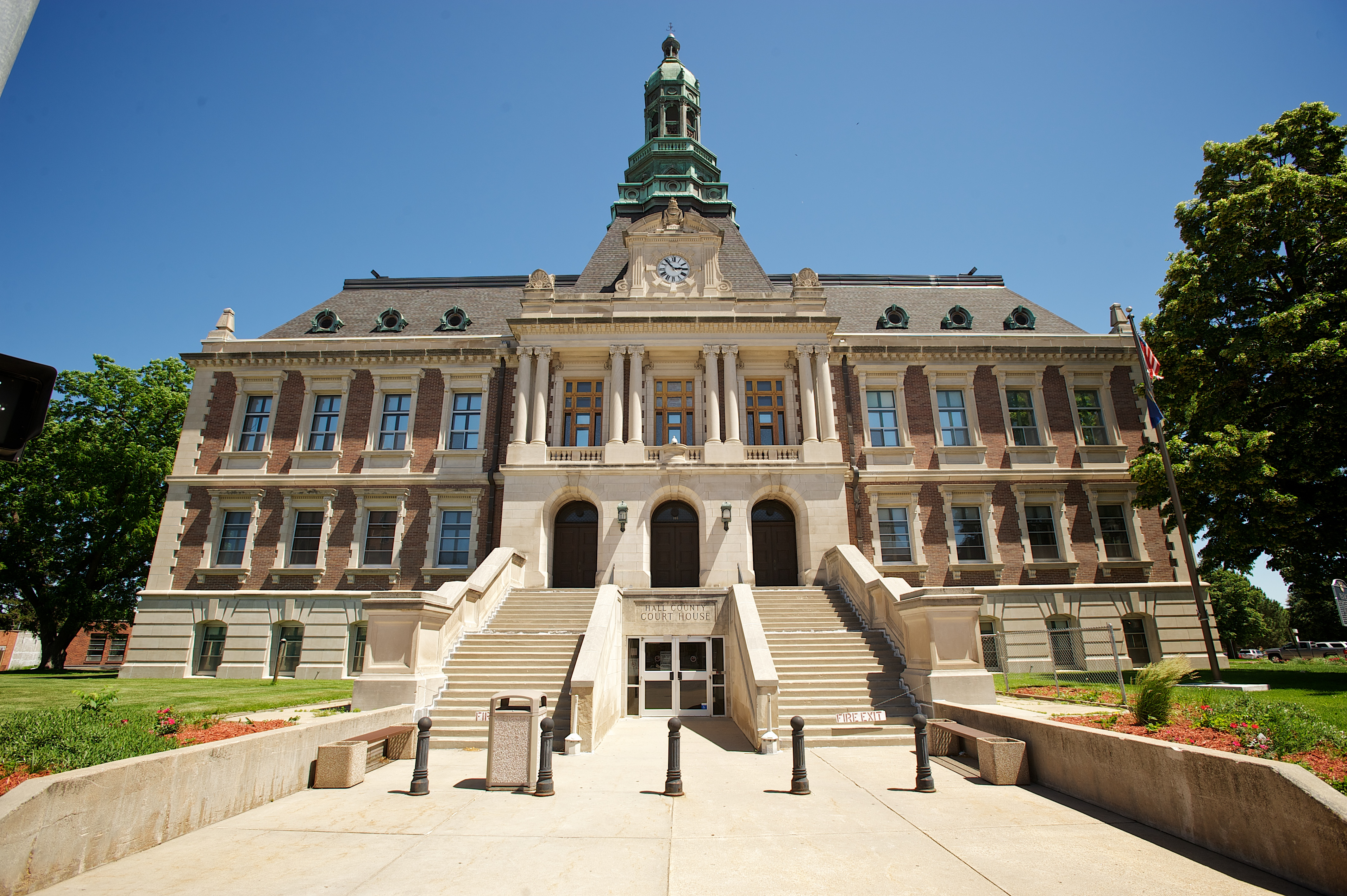 Facade of the Hall County Courthouse, located at the intersection of First and Locust Streets in Grand Island, Nebraska, United States. Designed by architect Thomas Kimball Rogers and built in 1901, it is listed on the National Register of Historic Places.